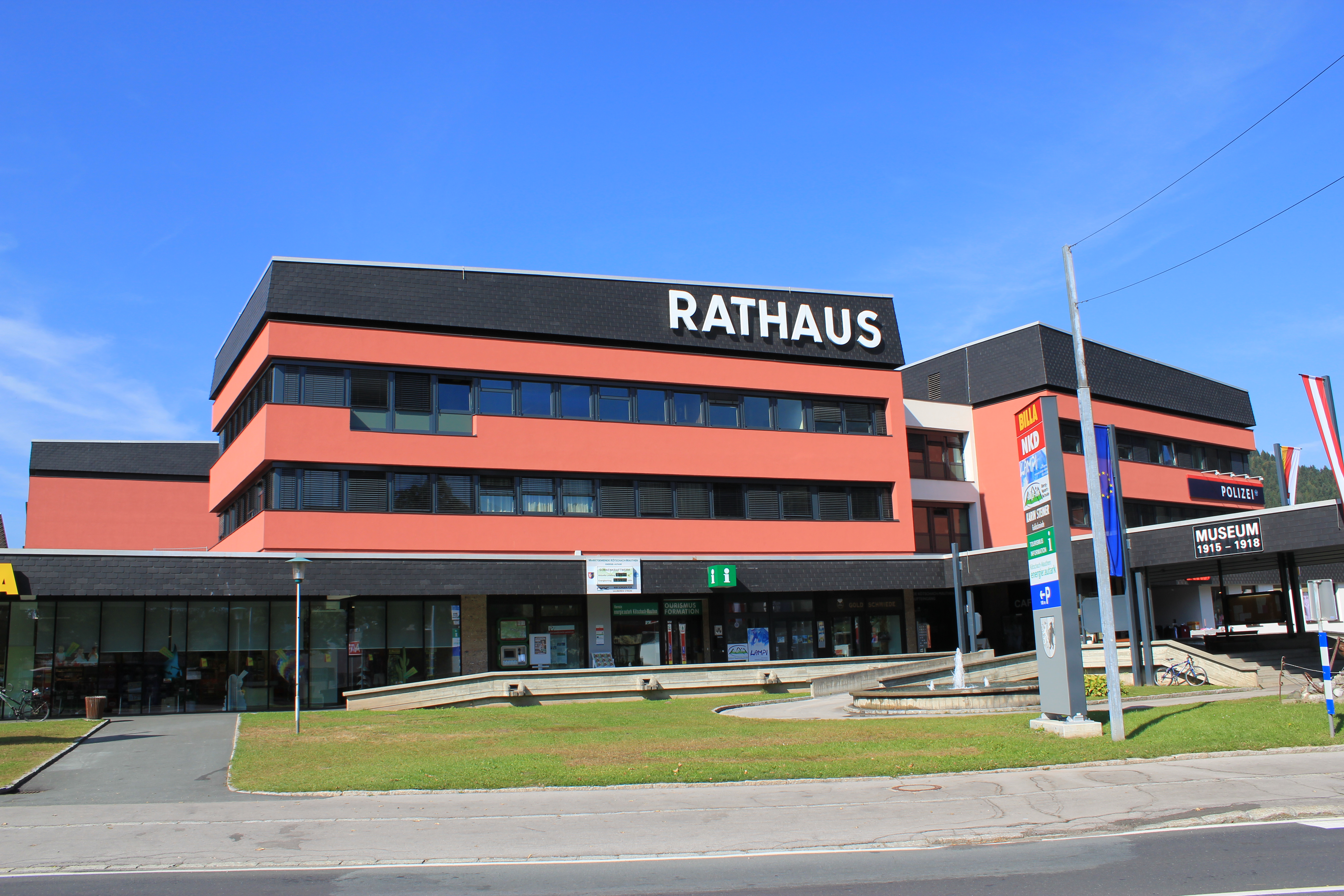 Town hall in the community of Kötschach-Mauthen